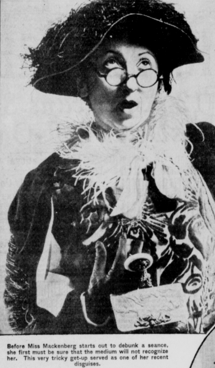 Photograph of Rose Mackenberg in disguise.